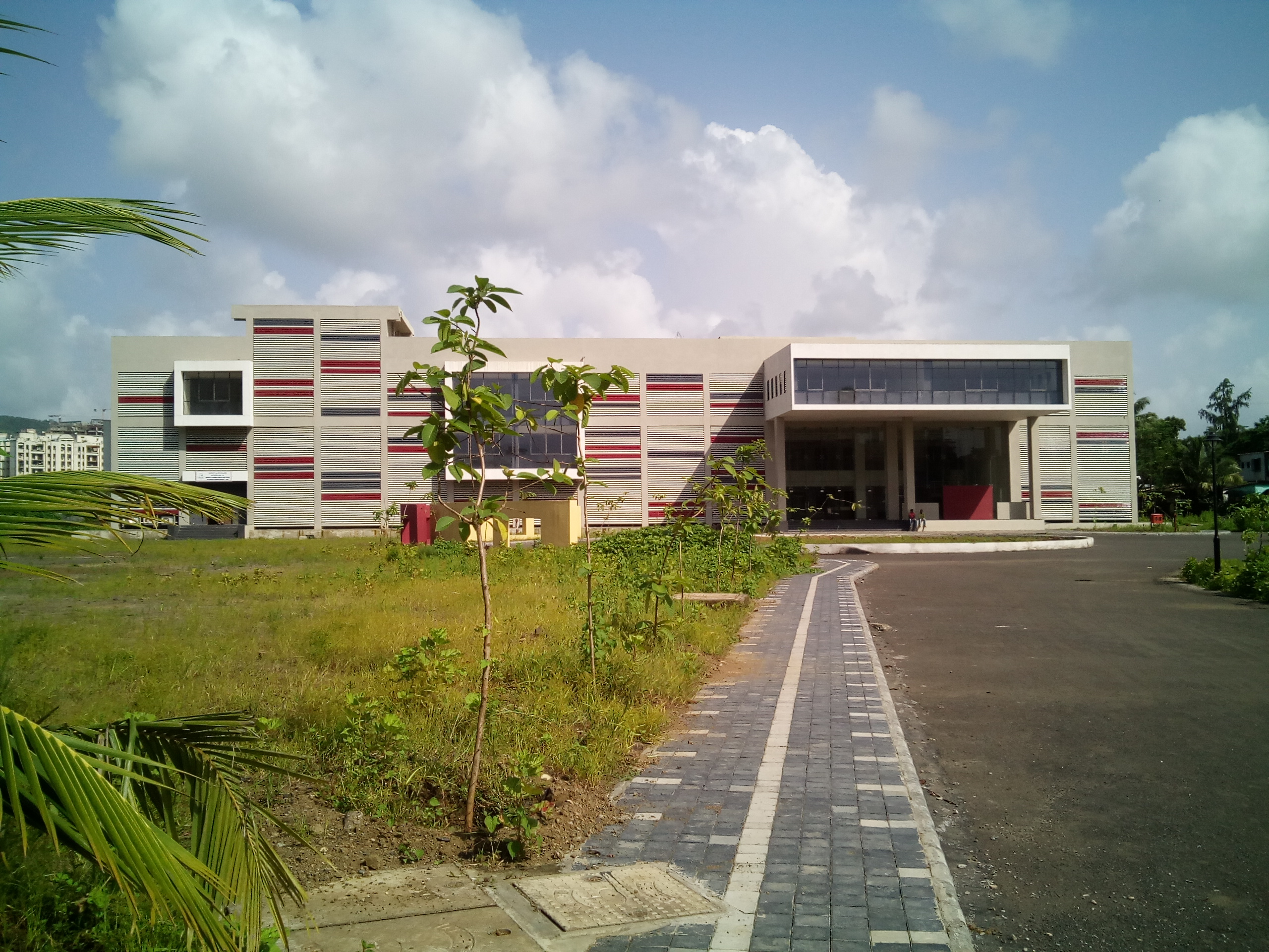 College building, campus